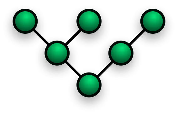 Created by me using OmniGraffle and released into the public domain. Original file available on request.